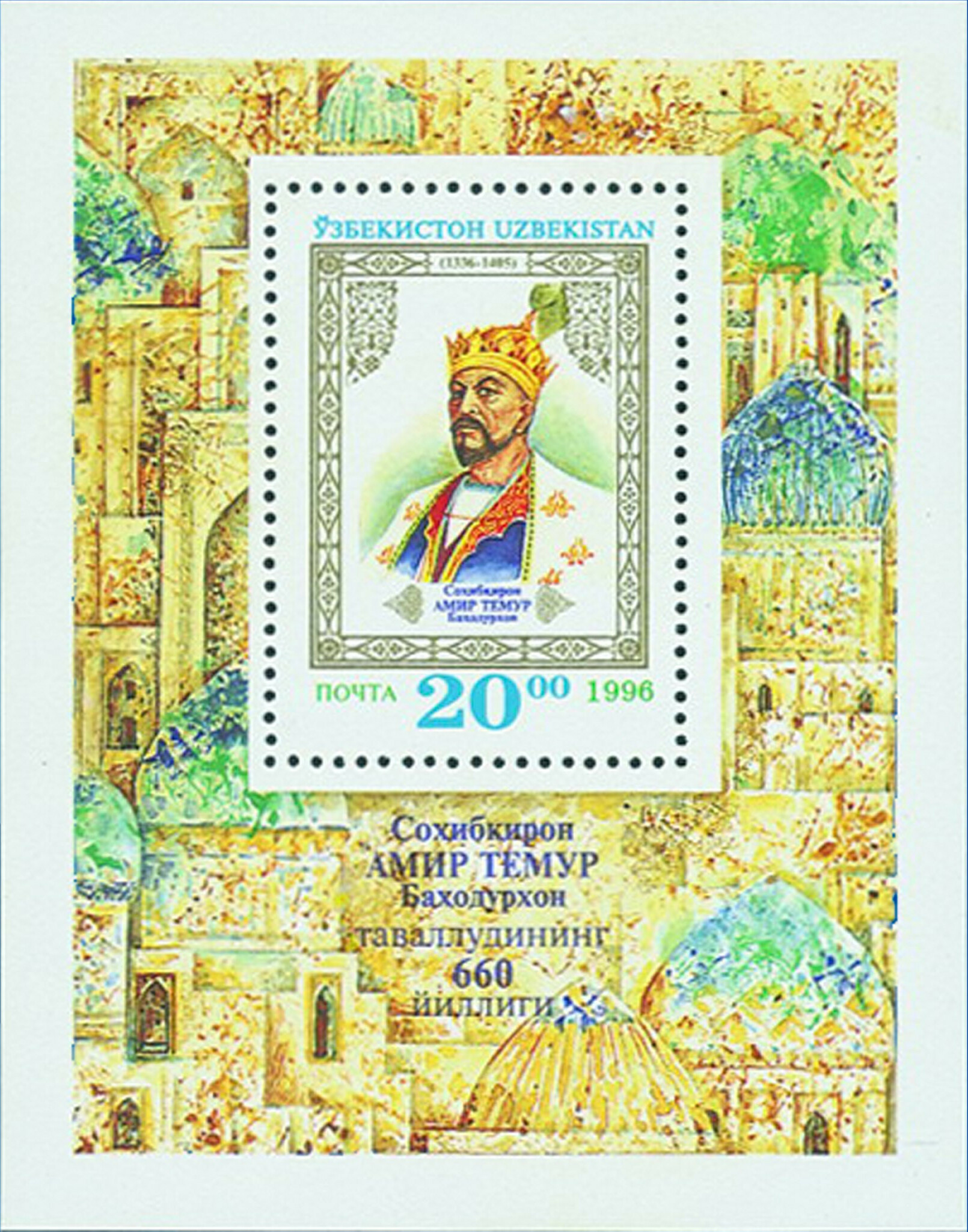 Uzbekistan Post 1996. Souvenir sheet. 660th birth anniversary of Tamerlane (Timur Lang), 1336-1405. In the background ancient Uzbek architecture.